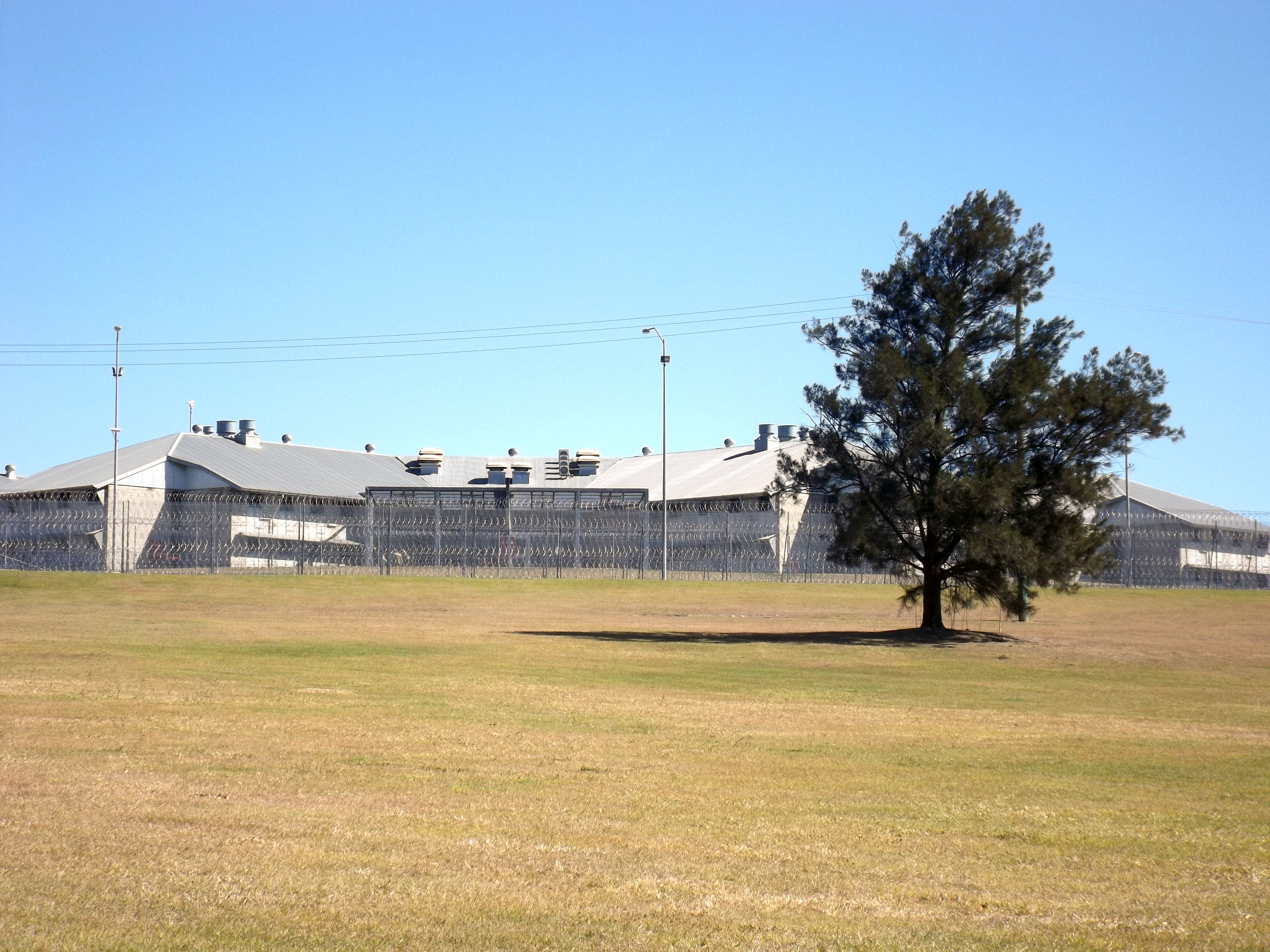 Photo of Woodford Correctional Centre, Woodford, Moreton Bay Region, Queensland, Australia.